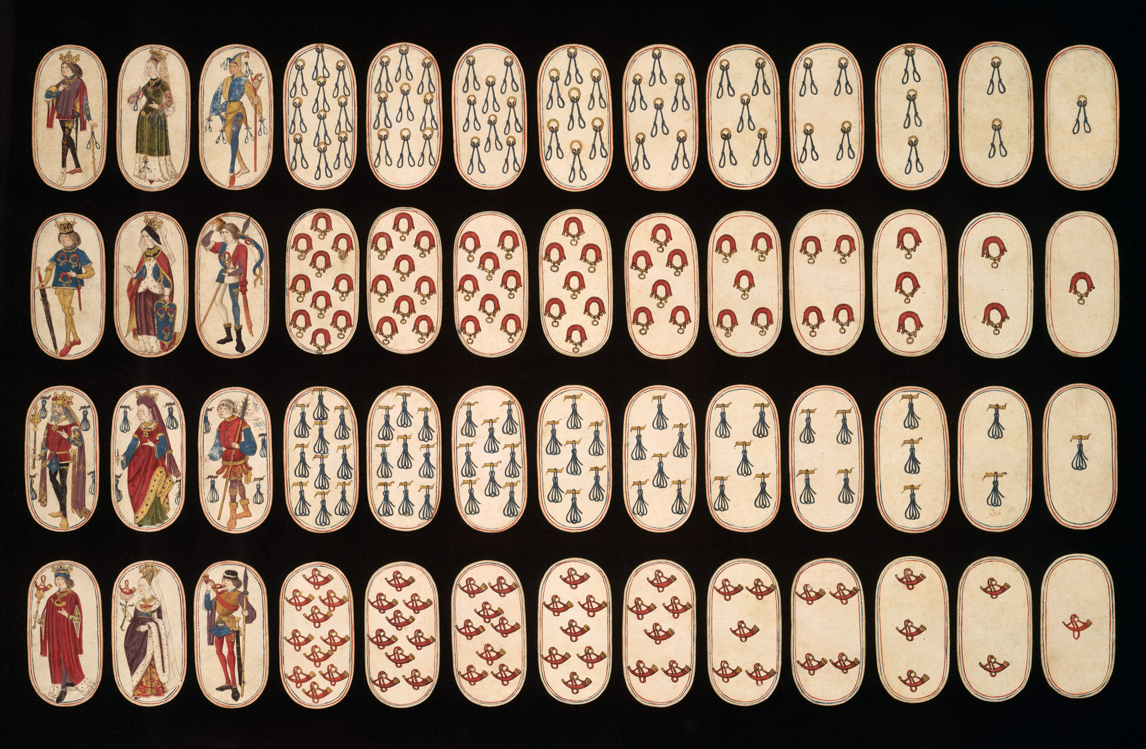 The oldest full deck of playing cards known. Credit Line: The Cloisters Collection, 1983 Accession Number: 1983.515.1–.52